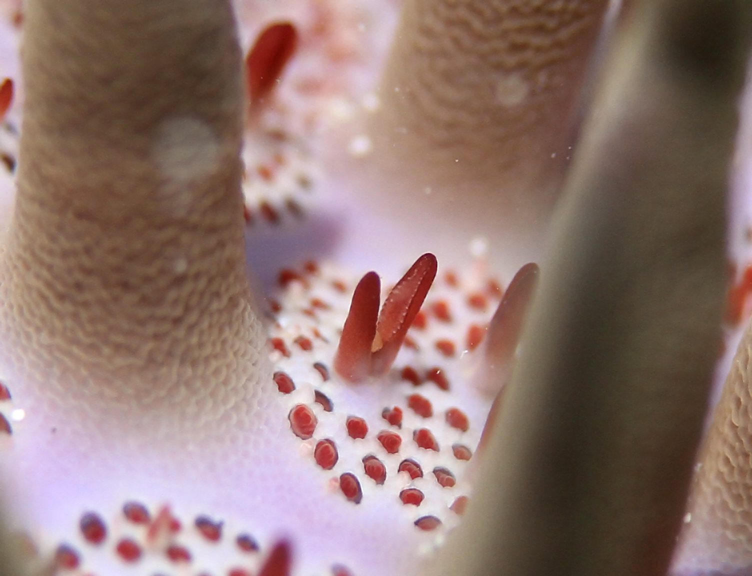 View of Pedicellaria of the starfish Acanthaster Planci at Réunion Island. The red spots are retracted respiratory papules.